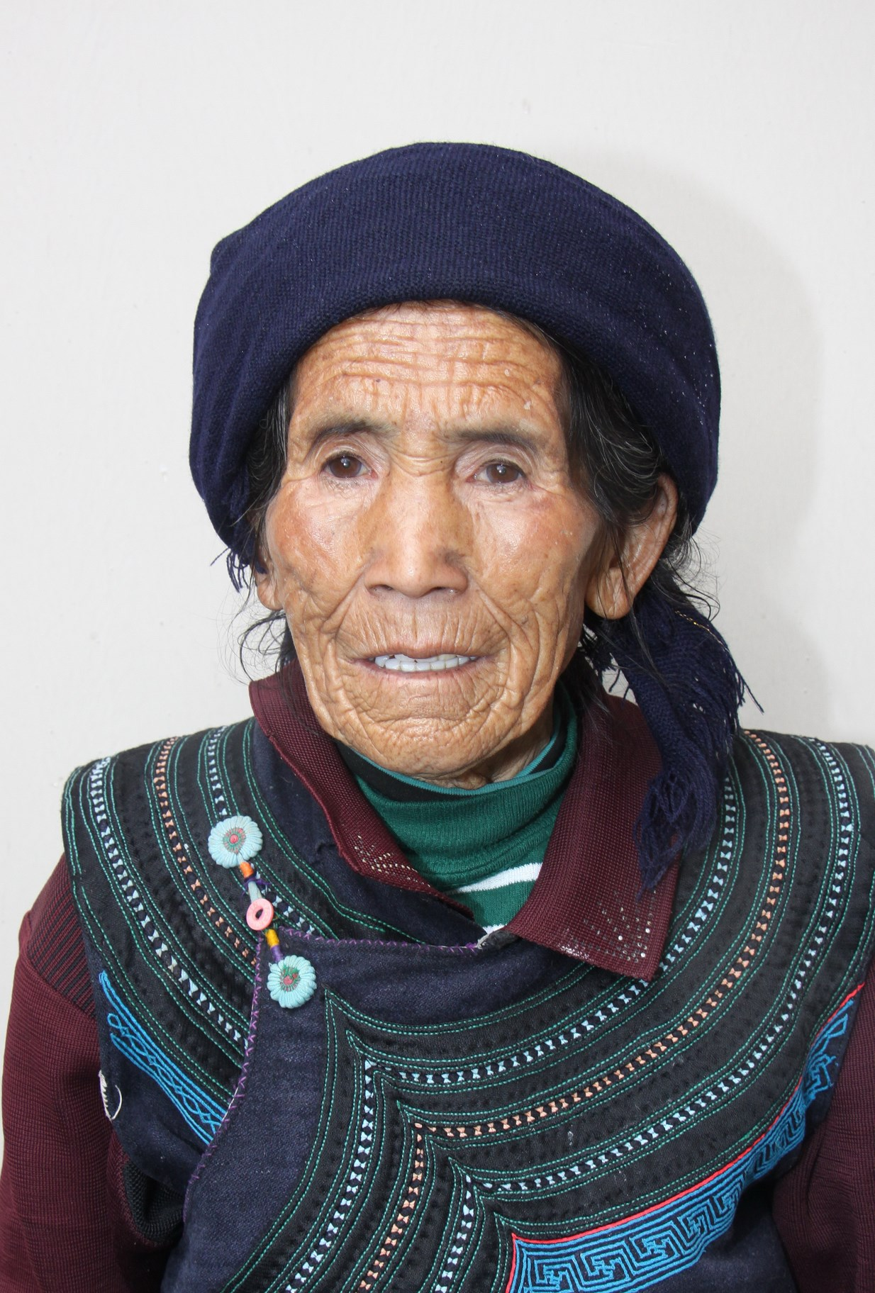 00 Yi minority in traditional